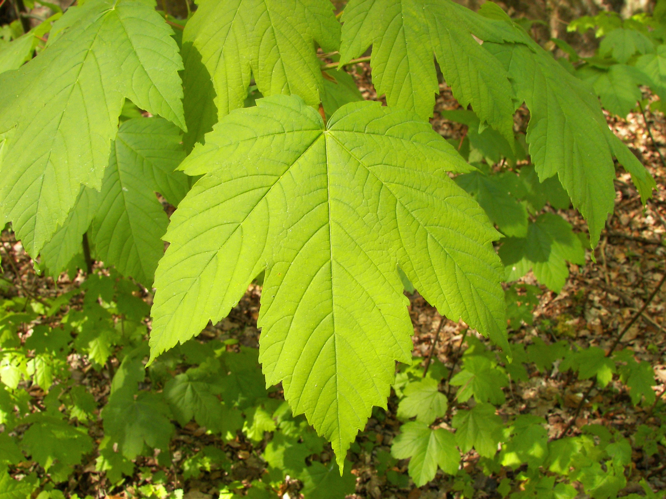 Sycamore Maple (Acer pseudoplatanus), Inflorescence, Location: Cappel, Hesse, Germany